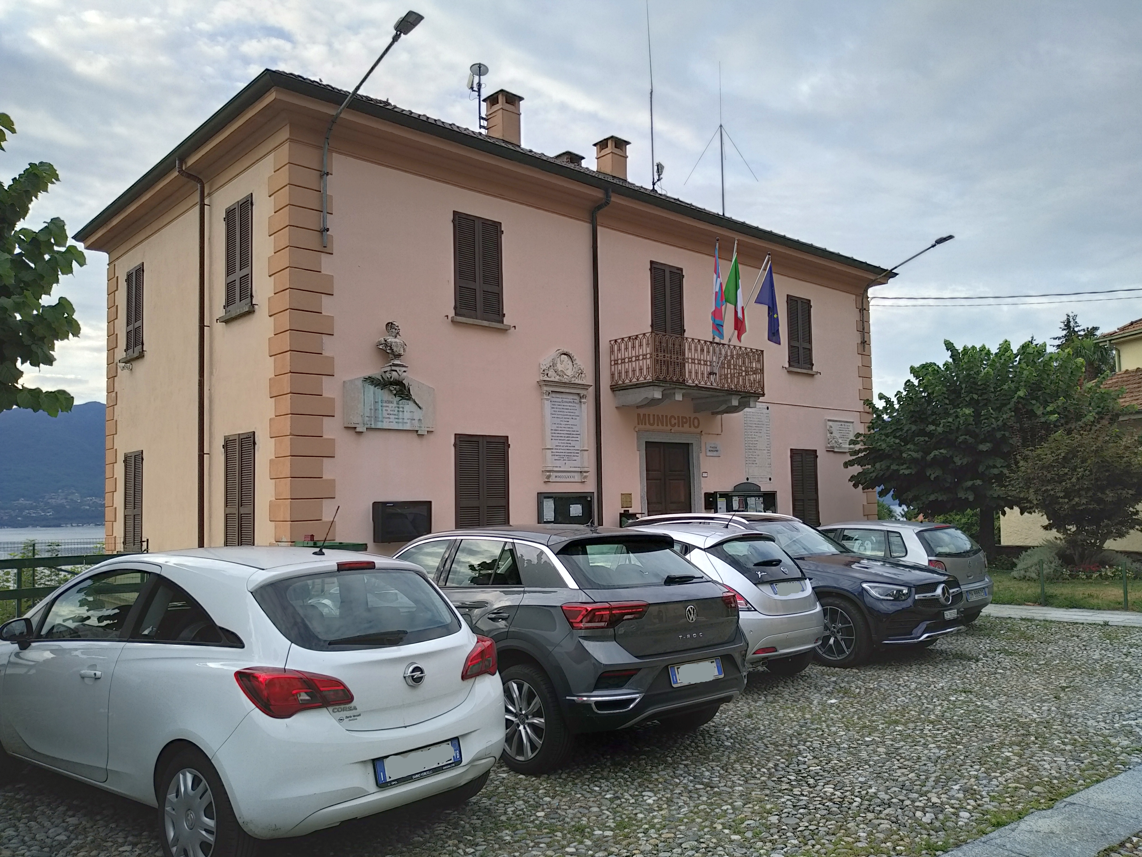 Oggebbio (VB, Italy) - town hall